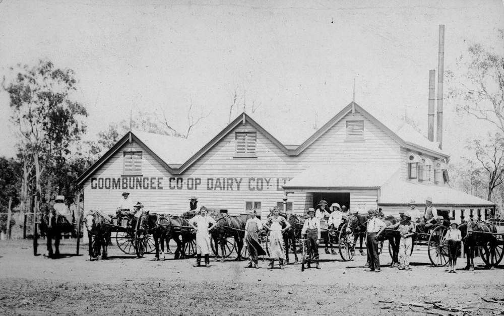 Workers and visitors outside the Goombungee Co-op Dairy Coy, Ltd., Goombungee, Queensland, ca. 1905